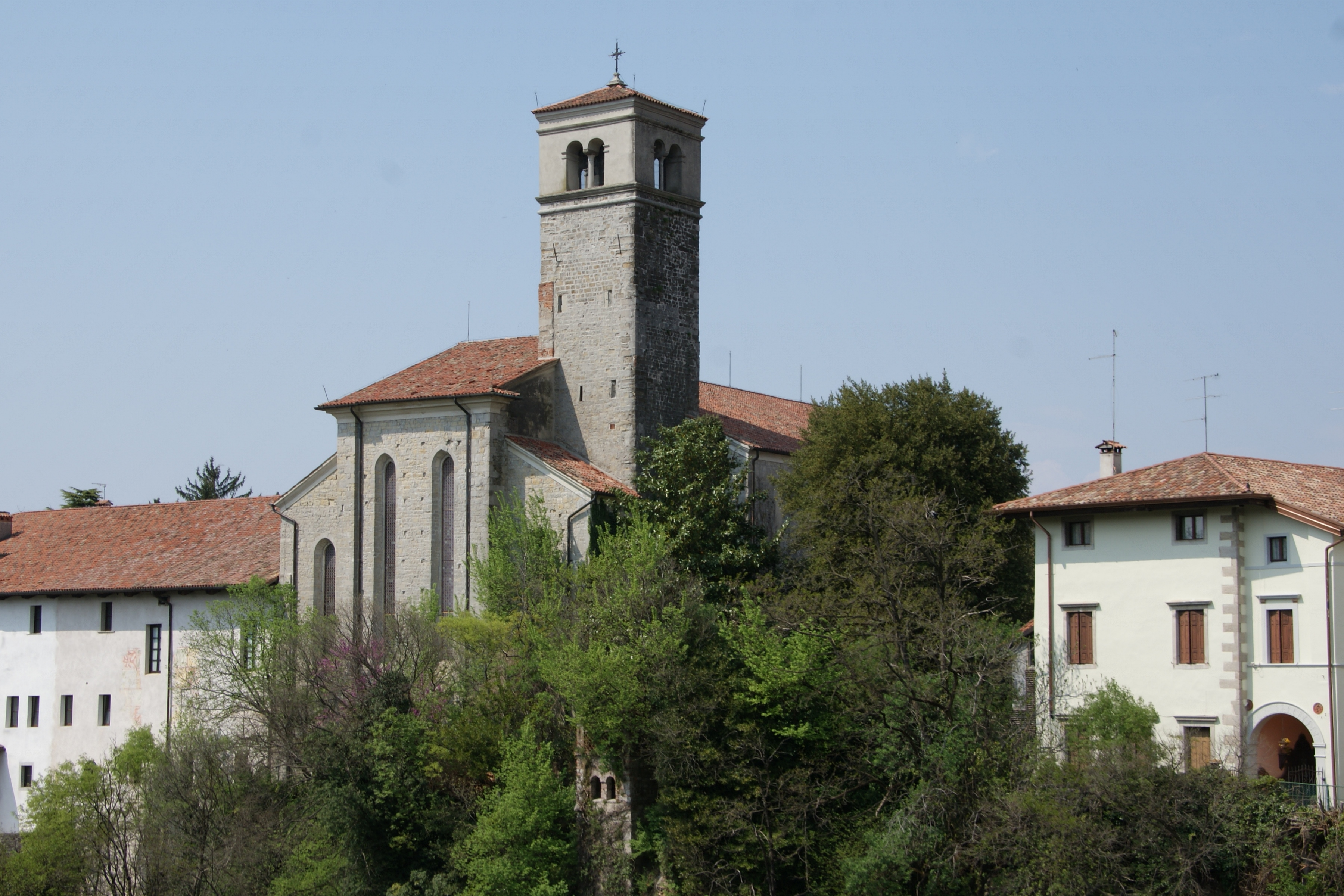 Cividale del Friuli, church San Francesco